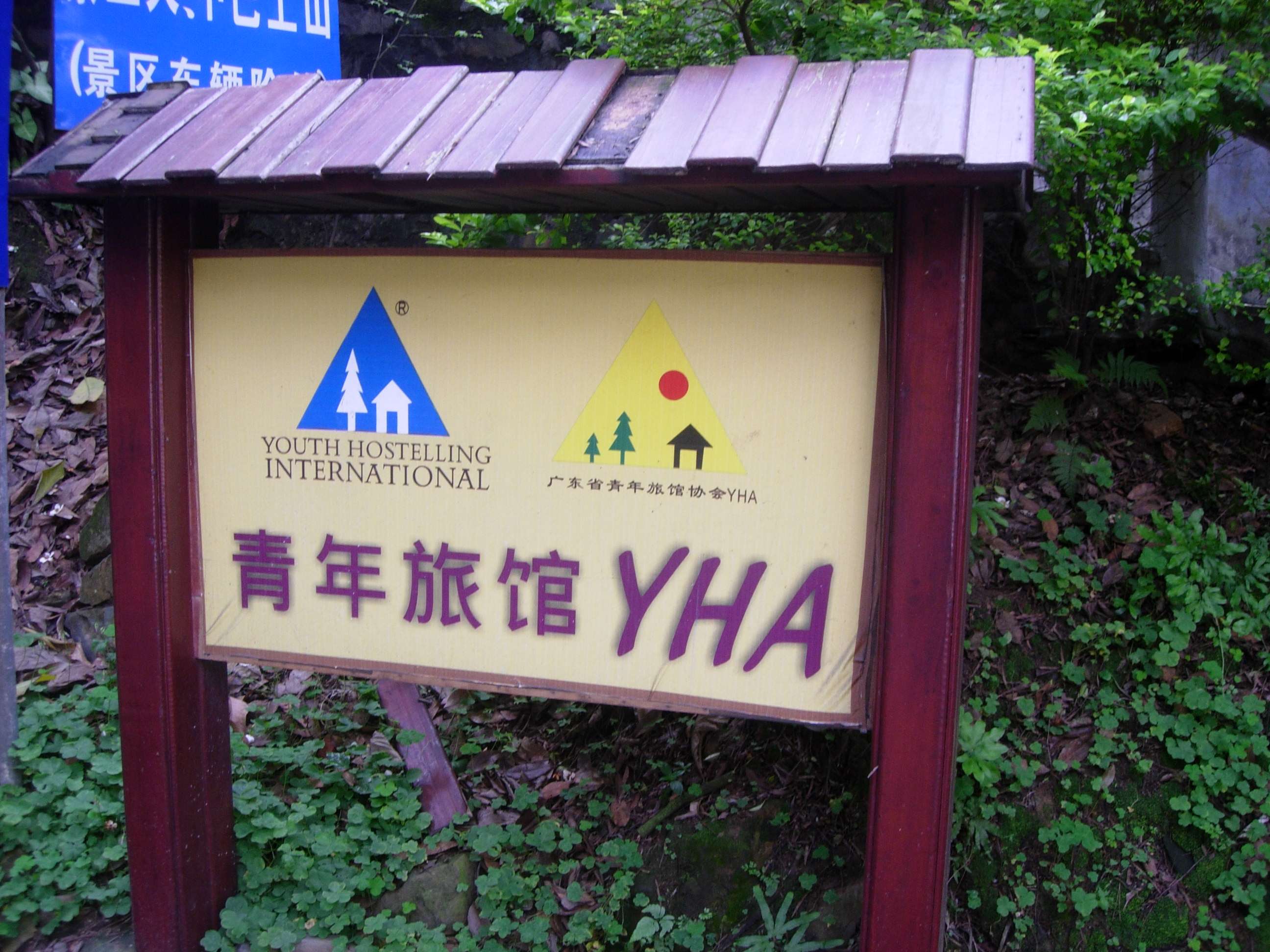 YHA Signage in Dinghushan